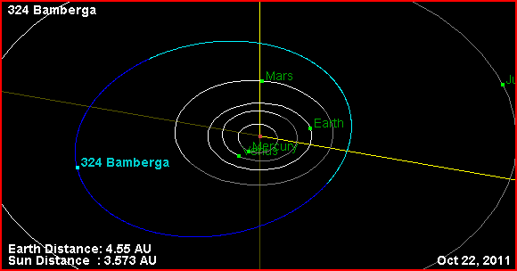 Orbit diagram for 324 Bamberga